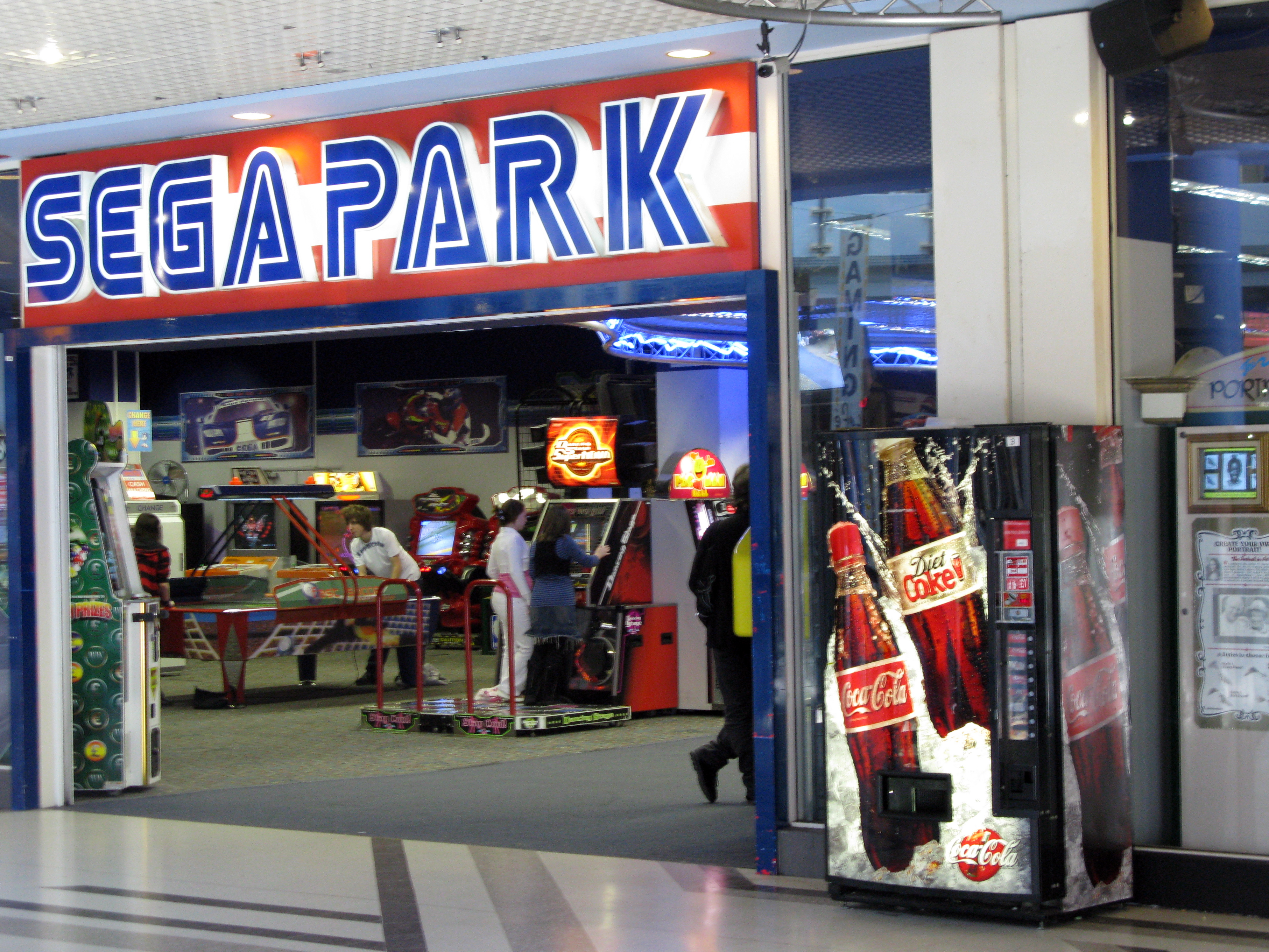 Still here in the Bargate Shopping Centre. They don't have Crazy Taxi, Sega Bass Fishing or Streetfighter II. They do have Sega Rally and Daytona USA! There's still an Internet Café down at the bottom.